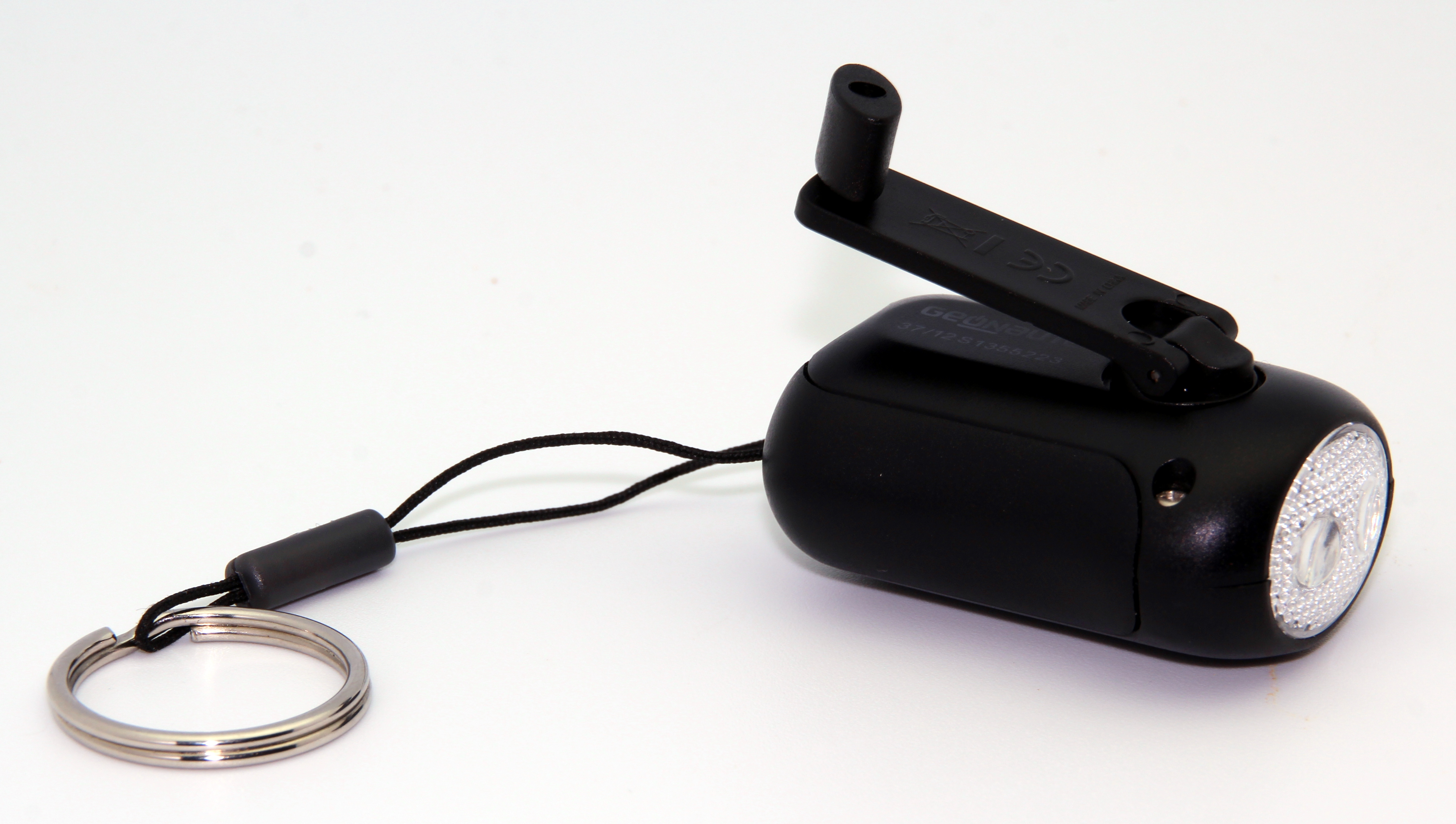 Keychain dynamo flashlight.